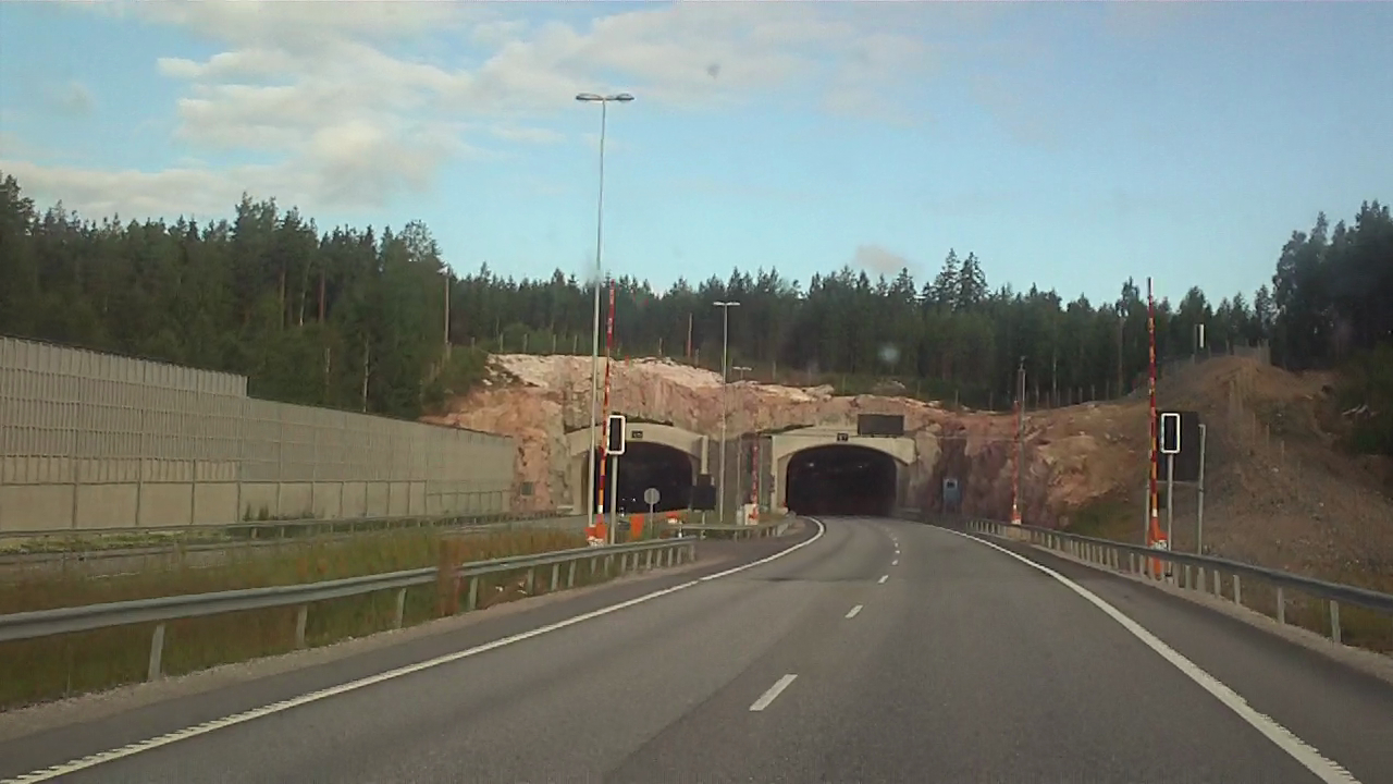 Pitkämäki road tunnel. One of the totally six road tunnels on the Helsinki–Turku motorway, Nummi-Pusula.